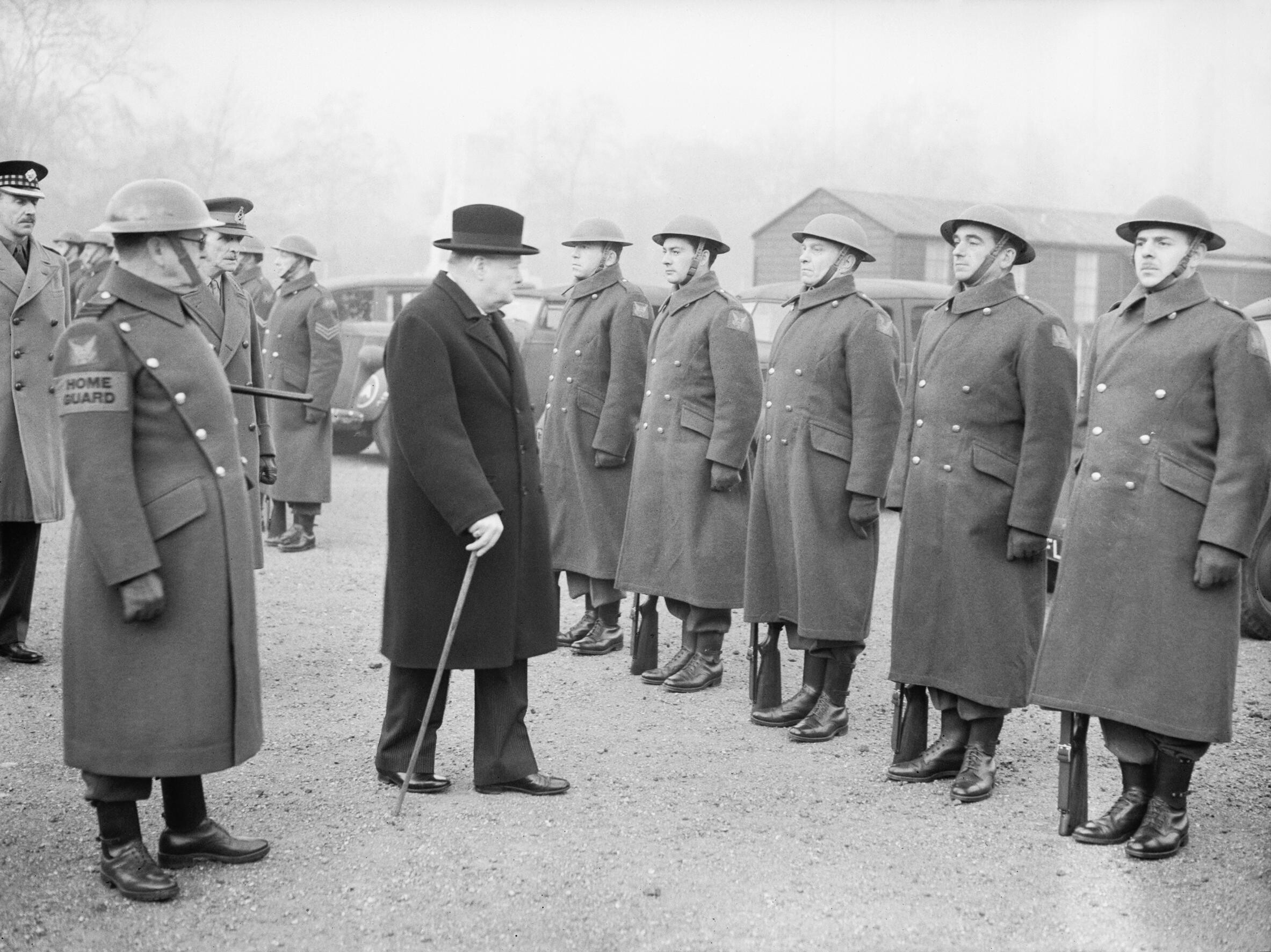 Winston Churchill inspects the 1st American Squadron of the Home Guard on Horse Guards Parade, London, 9 January 1941. The Prime Minister Winston Churchill inspects the 1st American Squadron of the Home Guard on Horse Guards Parade, London, on 9 January 1941.